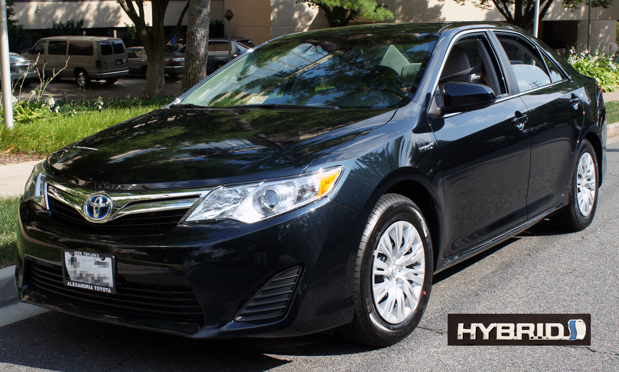 2012 Toyota Camry Hybrid LE with insert of hybrid badges, Arlington, Virginia, USA